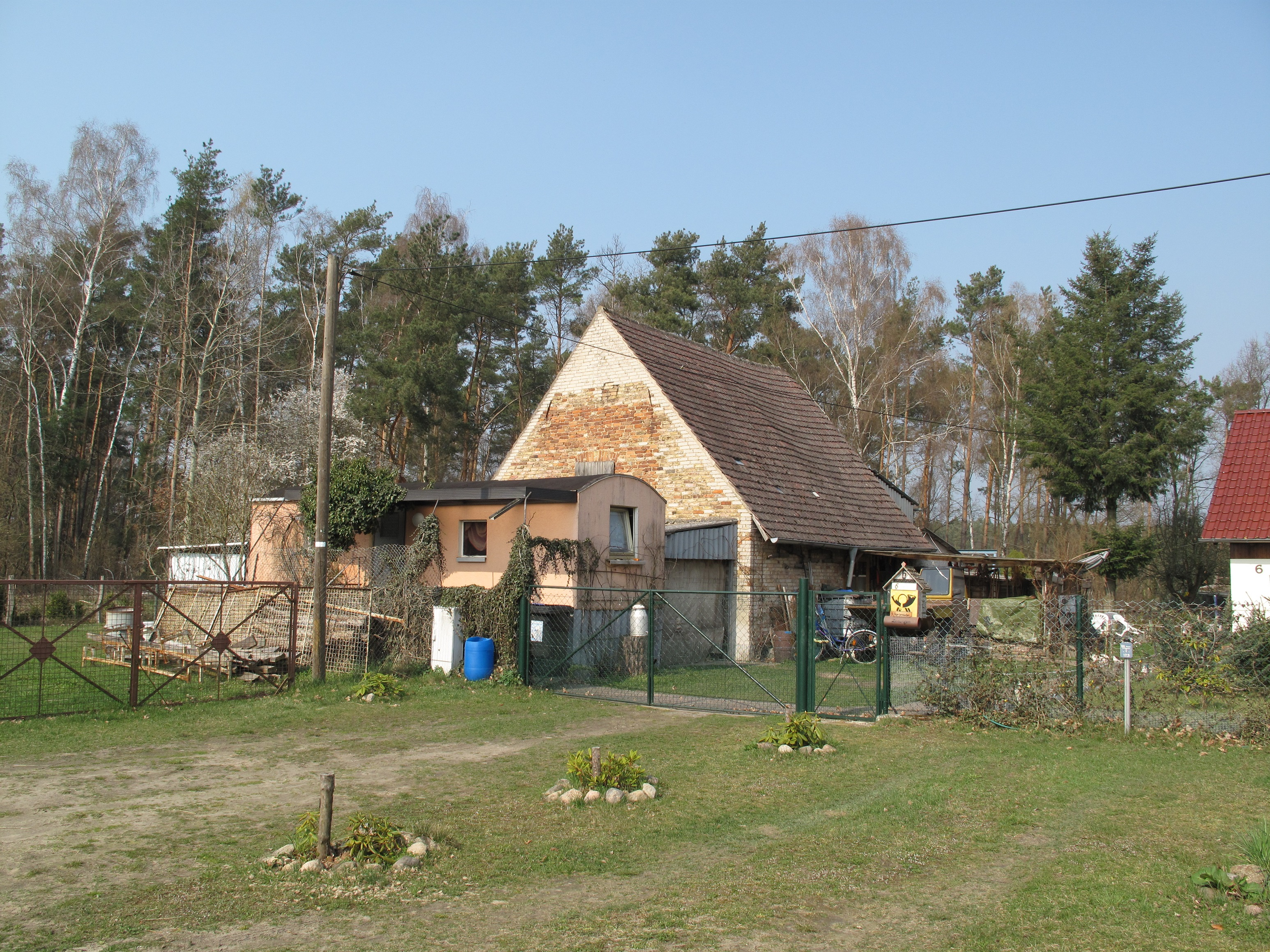 Annenhof is a part (settlement, estate; german: Wohnplatz) of Bad Saarow, District Oder-Spree, Brandenburg, Germany. The former folwark of the manor Pieskow was first mentioned in 1844 and is situated approximately 3 kilometers east of the Scharmützelsee.